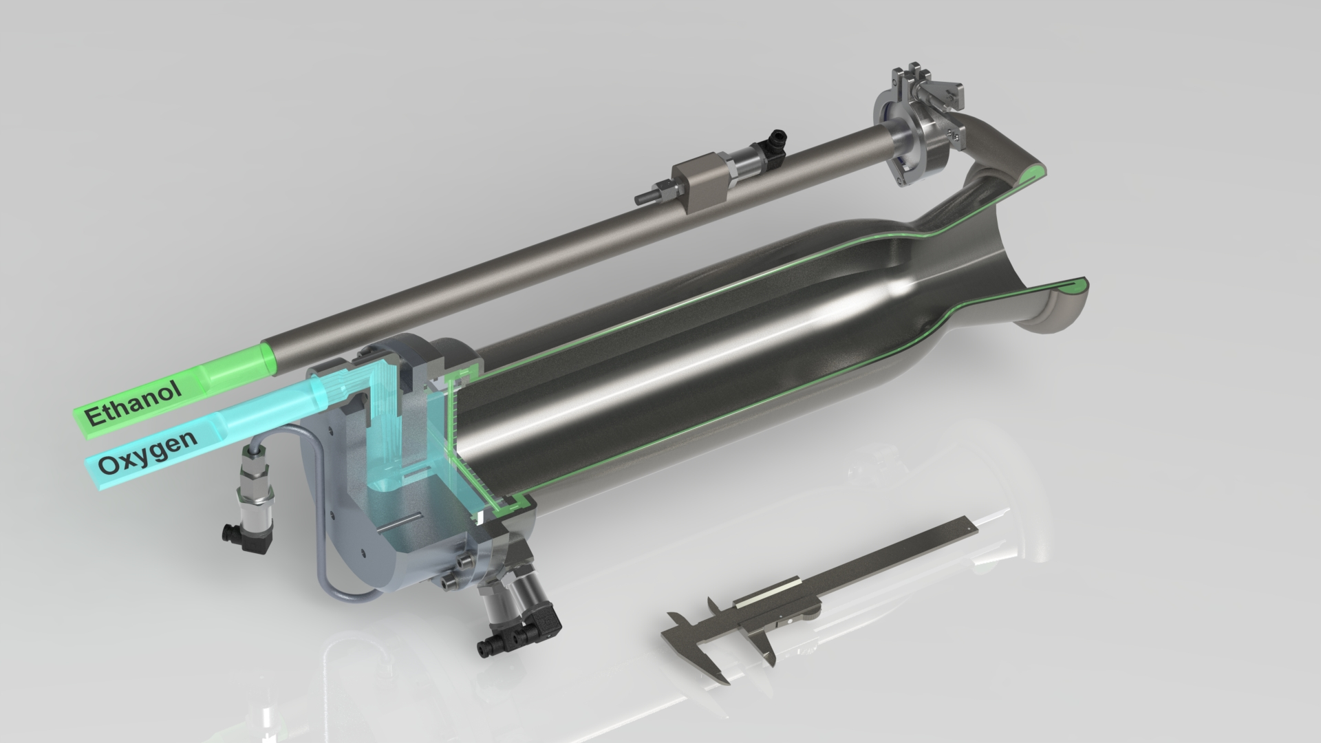 BPM5 rocket motor created by Copenhagen Suborbitals